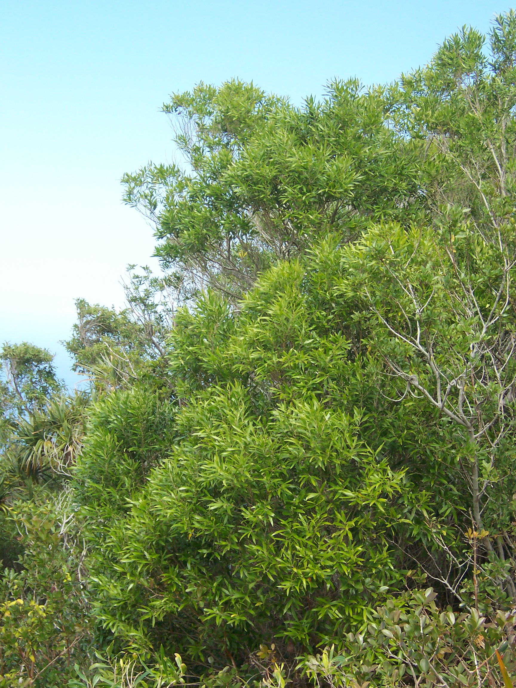 Olea lancea on the Réunion island